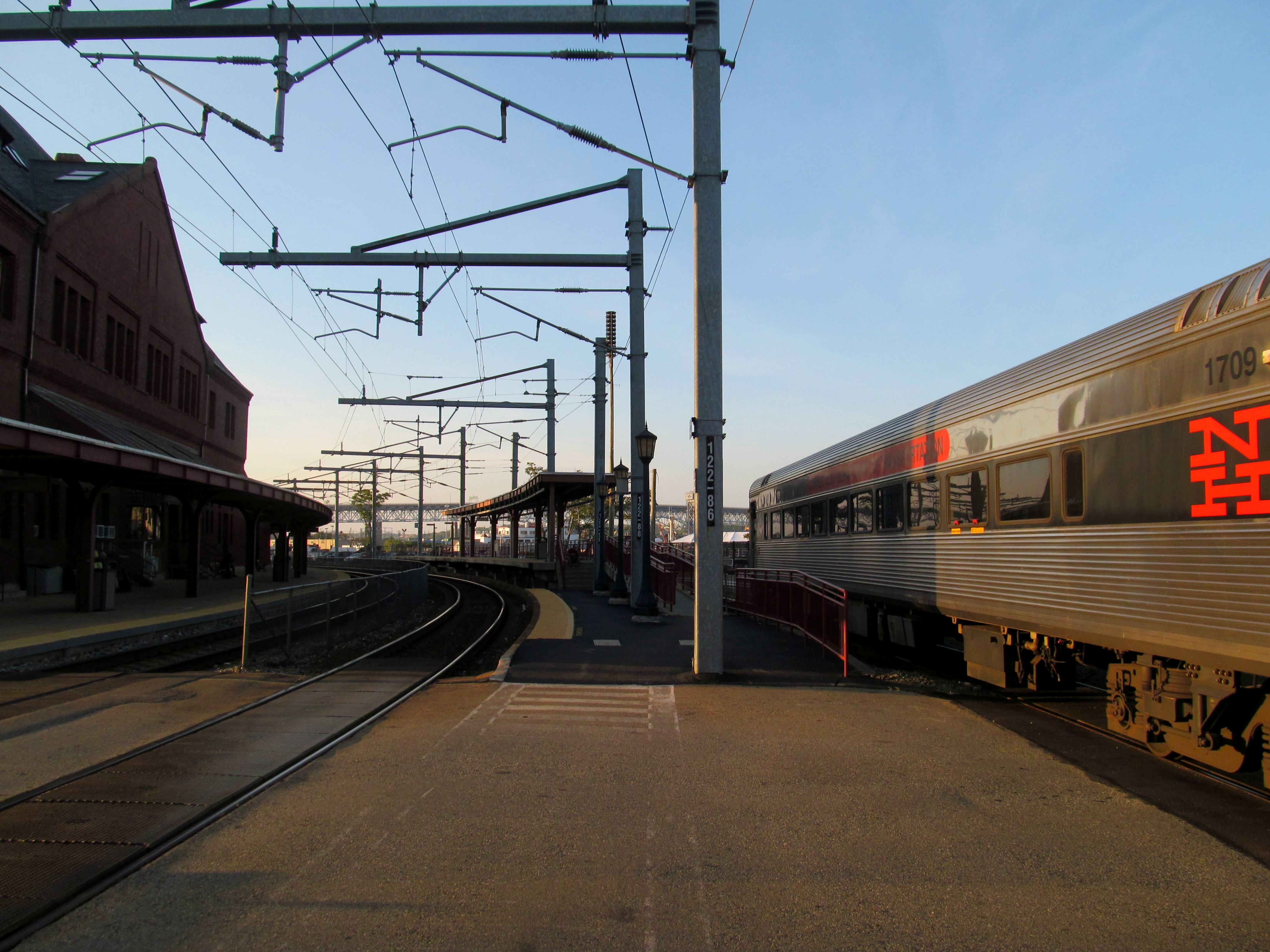 A Shore Line East train on Track 6 at New London Union Station on the first day of weekend service to New London